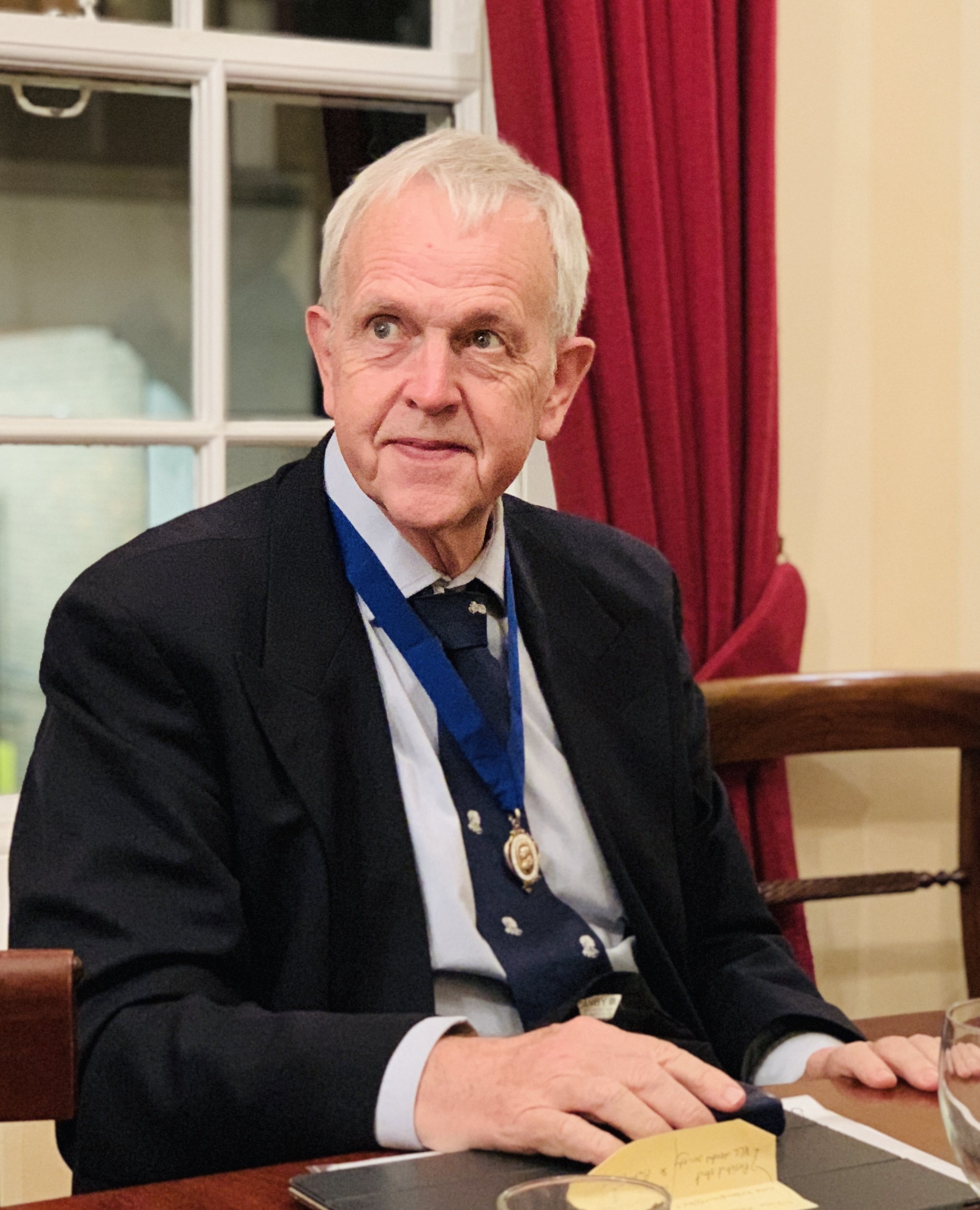 Stephen Challacombe, Hunterian Society, past president 2019. Wearing past president medal